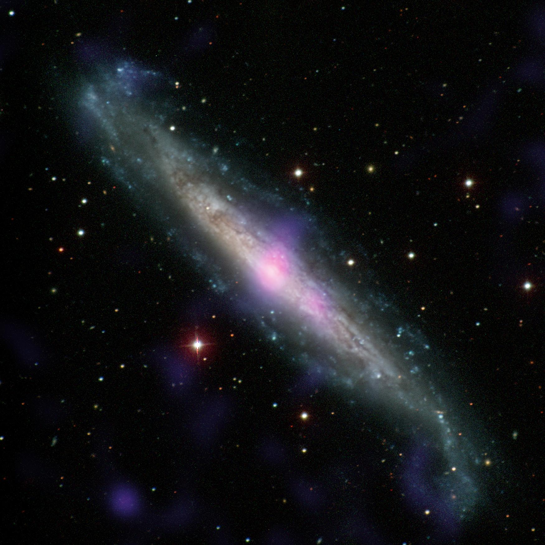 NGC 1448, a galaxy with an active galactic nucleus, is seen in this image combining data from the Carnegie-Irvine Galaxy Survey in the optical range and NuSTAR in the X-ray range. This galaxy contains an example of a supermassive black hole hidden by gas and dust. X-ray emissions from NGC 1448, as seen by NuSTAR and Chandra, suggests for the first time that, like IC 3639 in PIA21087, there must be a thick layer of gas and dust hiding the active black hole in this galaxy from our line of sight. NuSTAR is a Small Explorer mission led by Caltech and managed by JPL for NASA's Science Mission Directorate in Washington. NuSTAR was developed in partnership with the Danish Technical University and the Italian Space Agency (ASI). The spacecraft was built by Orbital Sciences Corp., Dulles, Virginia. NuSTAR's mission operations center is at UC Berkeley, and the official data archive is at NASA's High Energy Astrophysics Science Archive Research Center. ASI provides the mission's ground station and a mirror archive. JPL is managed by Caltech for NASA. For more information, visit and